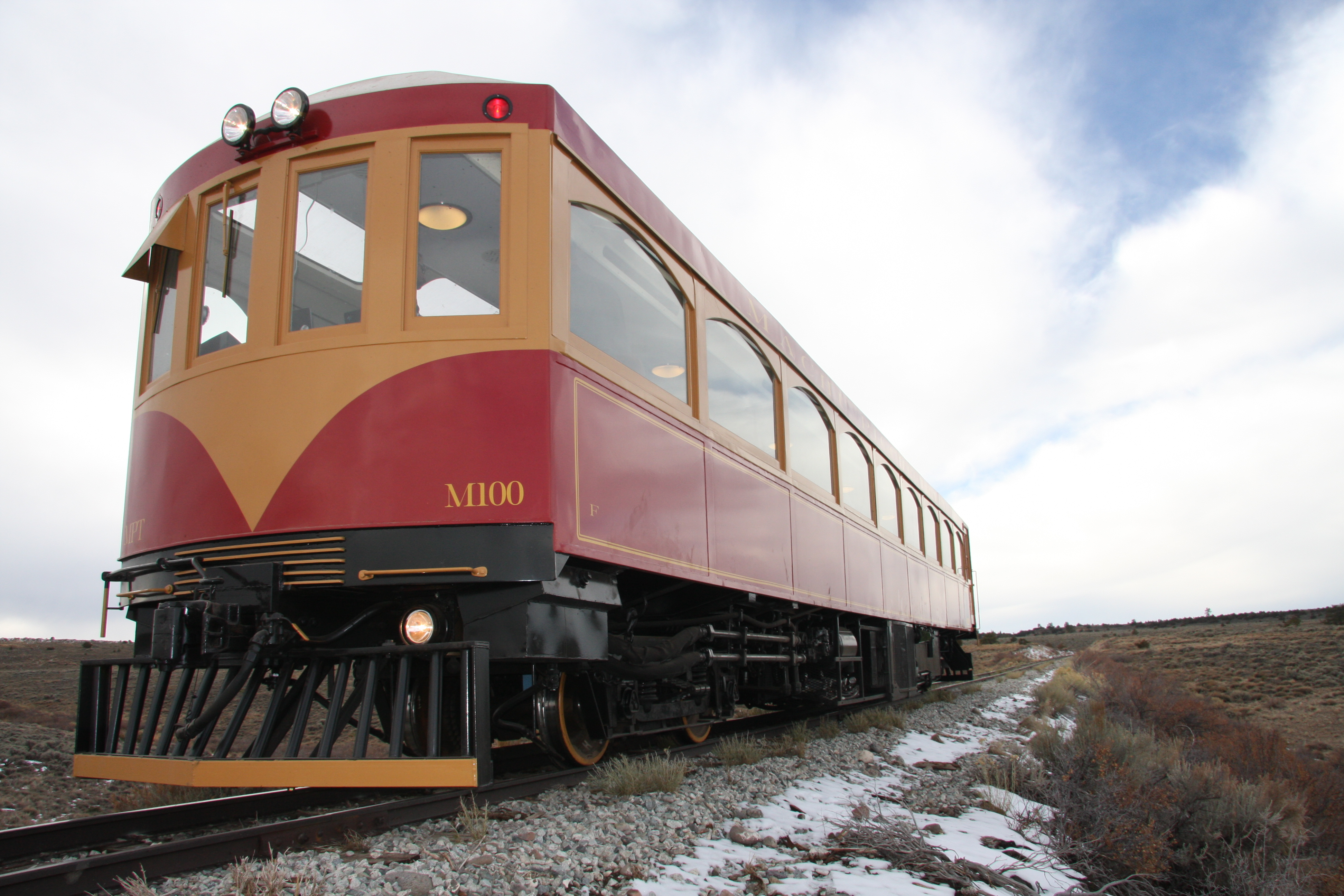 Self Propelled Railcar (Doodlebug) by EIKON International